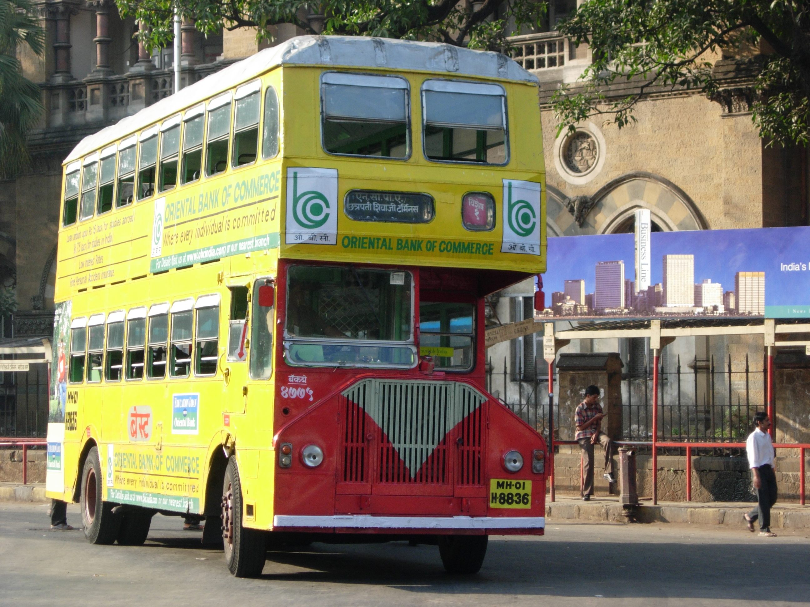 A BEST bus in Mumbai, India.